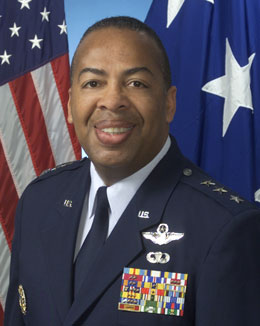 This is an official United States Air Force photo of Lt. Gen. John Hopper taken from his USAF biography. Date is unknown but likely near his retirement in 2005.